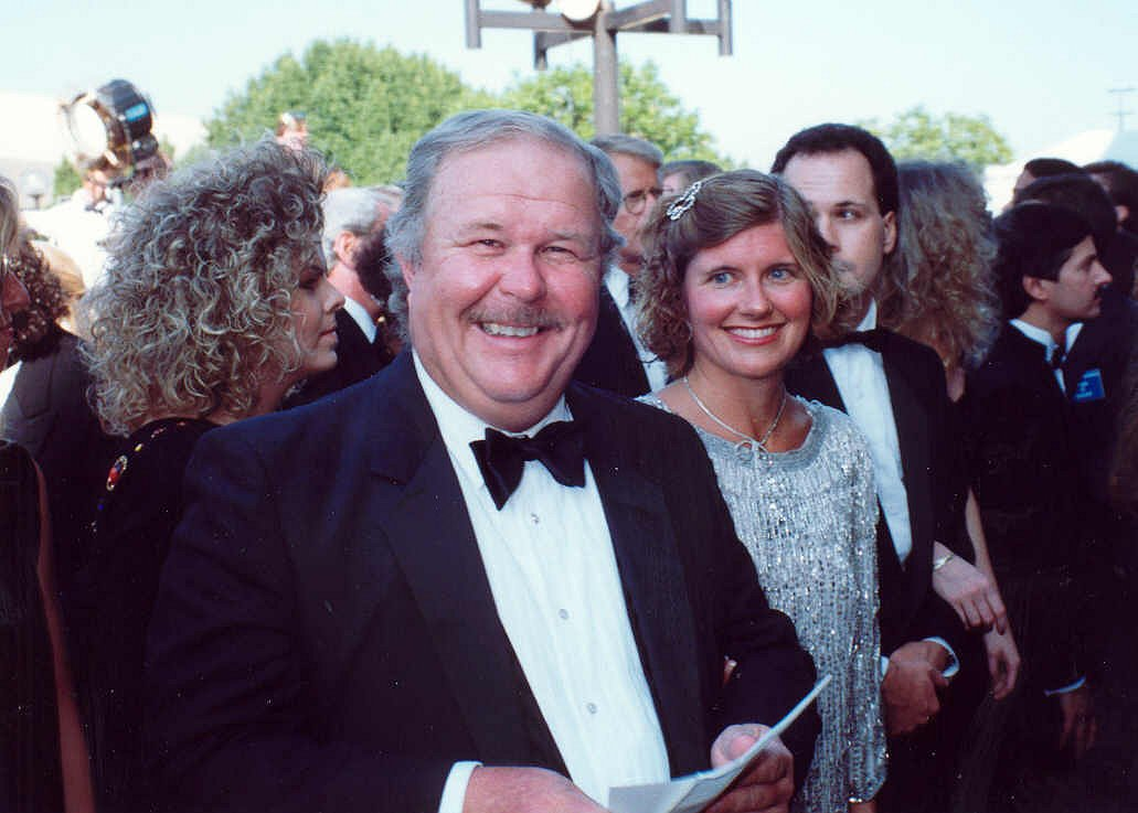 42nd Emmy Awards - Sept. 1990- Permission granted to copy, publish or post but please credit "photo by Alan Light" if you can